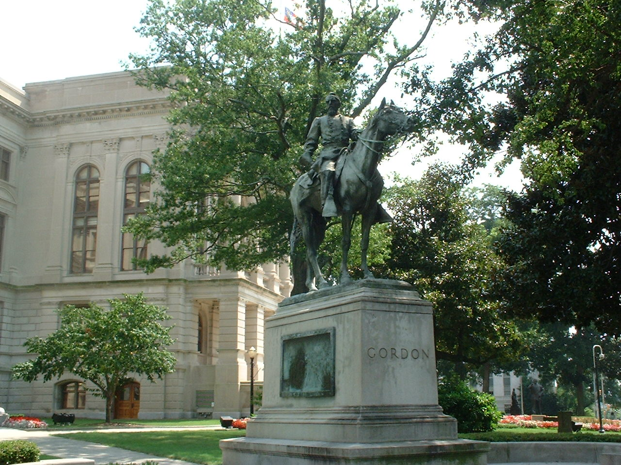 John Brown Gordon statue